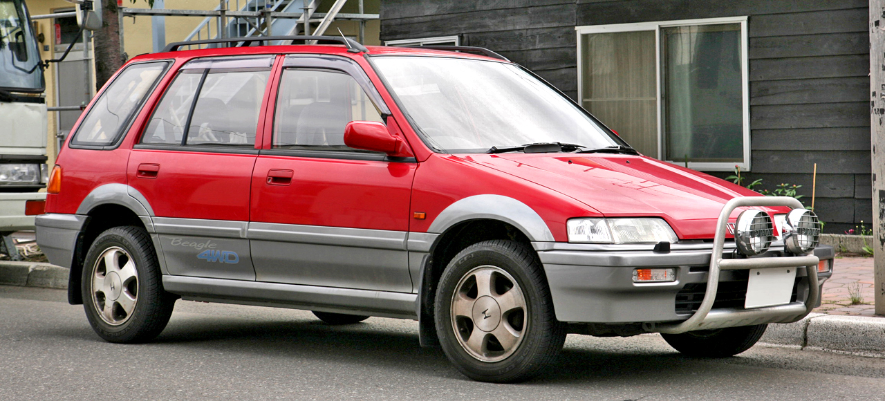 Honda Civic Shuttle 4WD 1600 Beagle